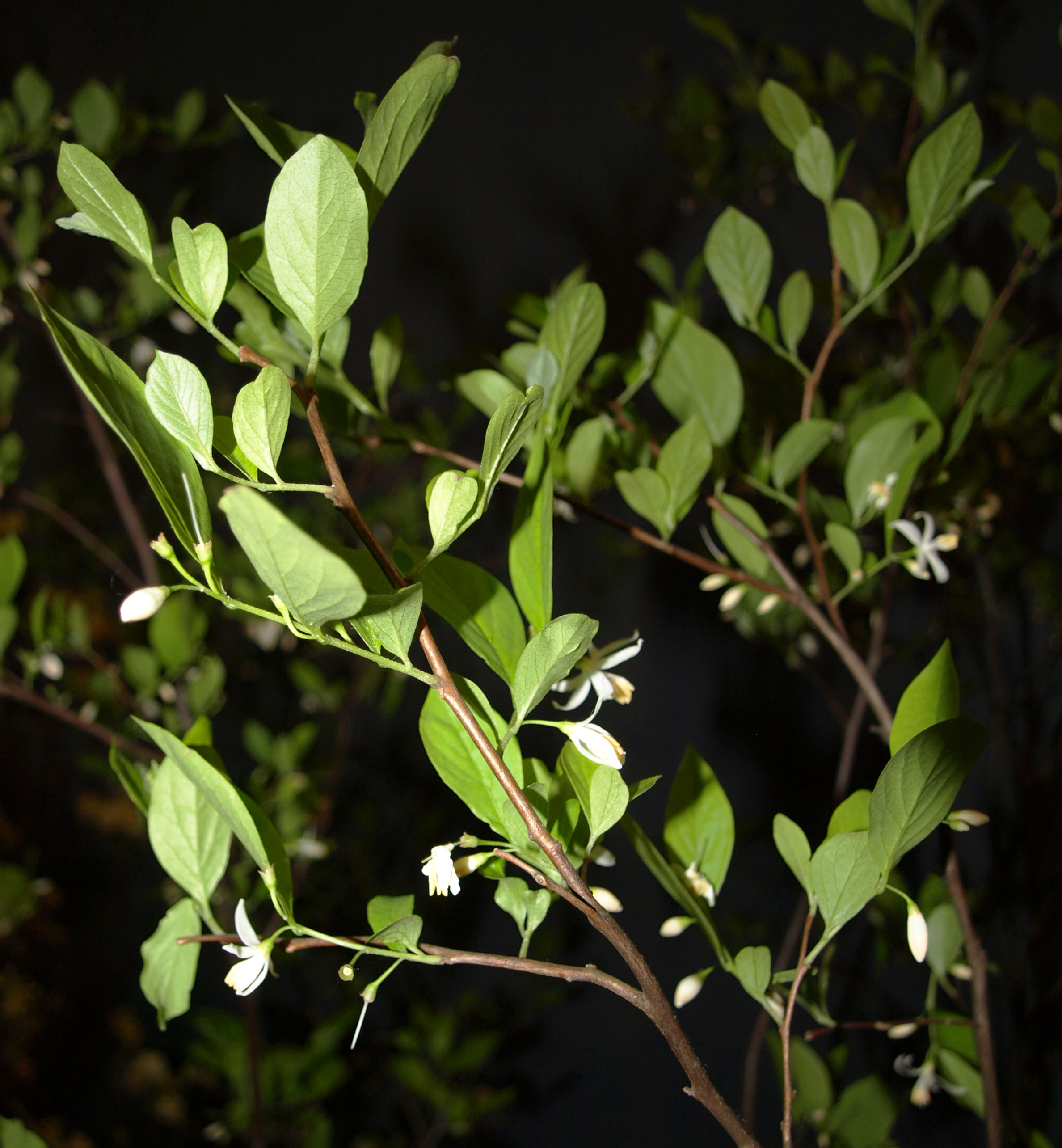 Styrax americanus (American snowbell), a native plant Learn more about EPA’s Exhibit at the 2010 Philadelphia International Flower Show: (6 pp, 864K)